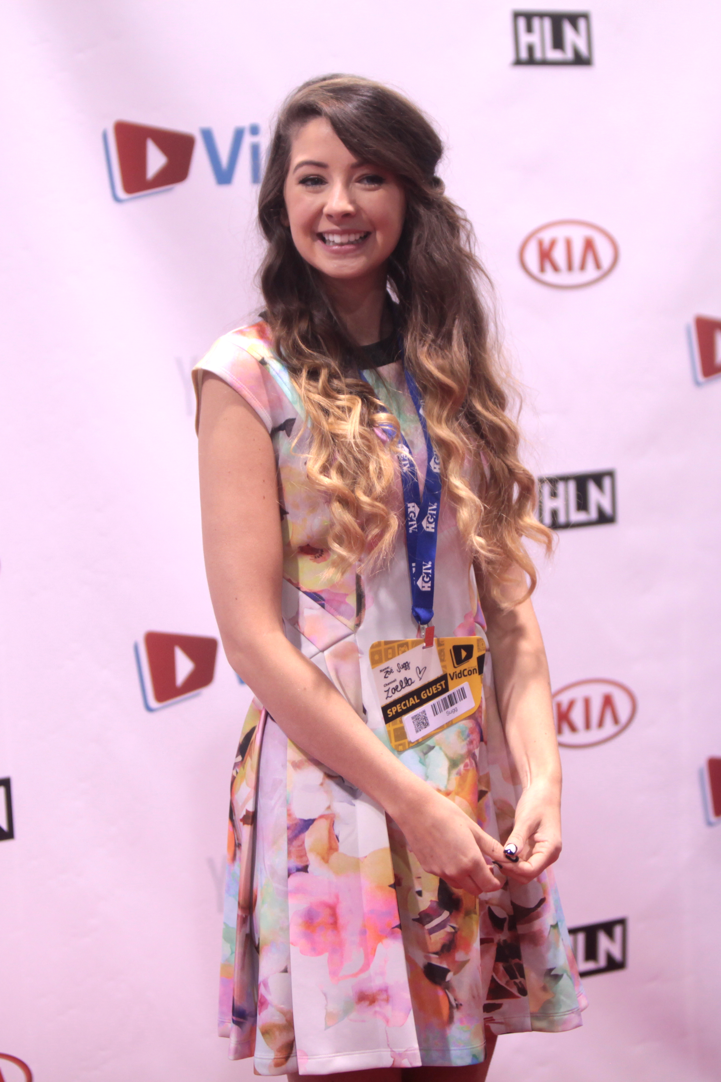 Zoe Sugg at the 2014 VidCon on June 27, 2014.